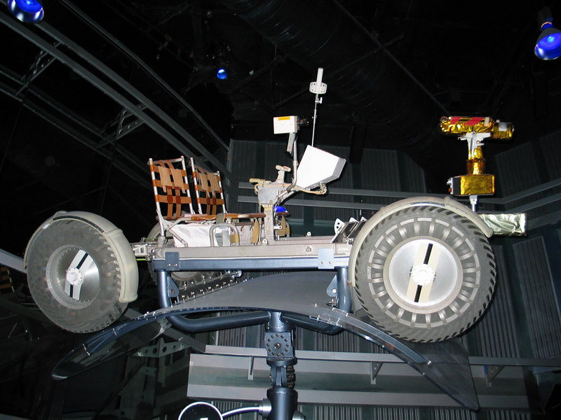 lunar rover replica on display at Mission Space, Epcot, Disney World